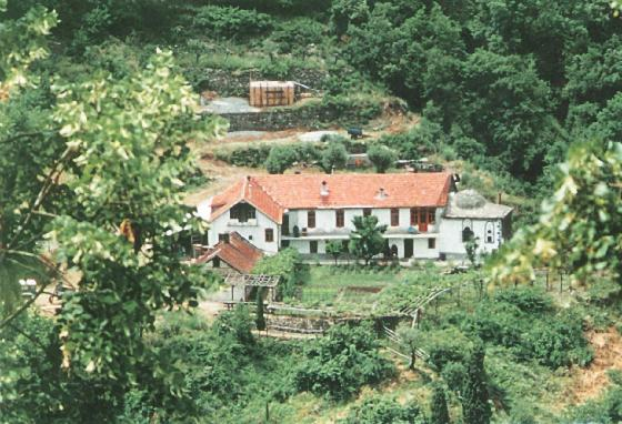 Lakkoskiti - hut Evaggelismos